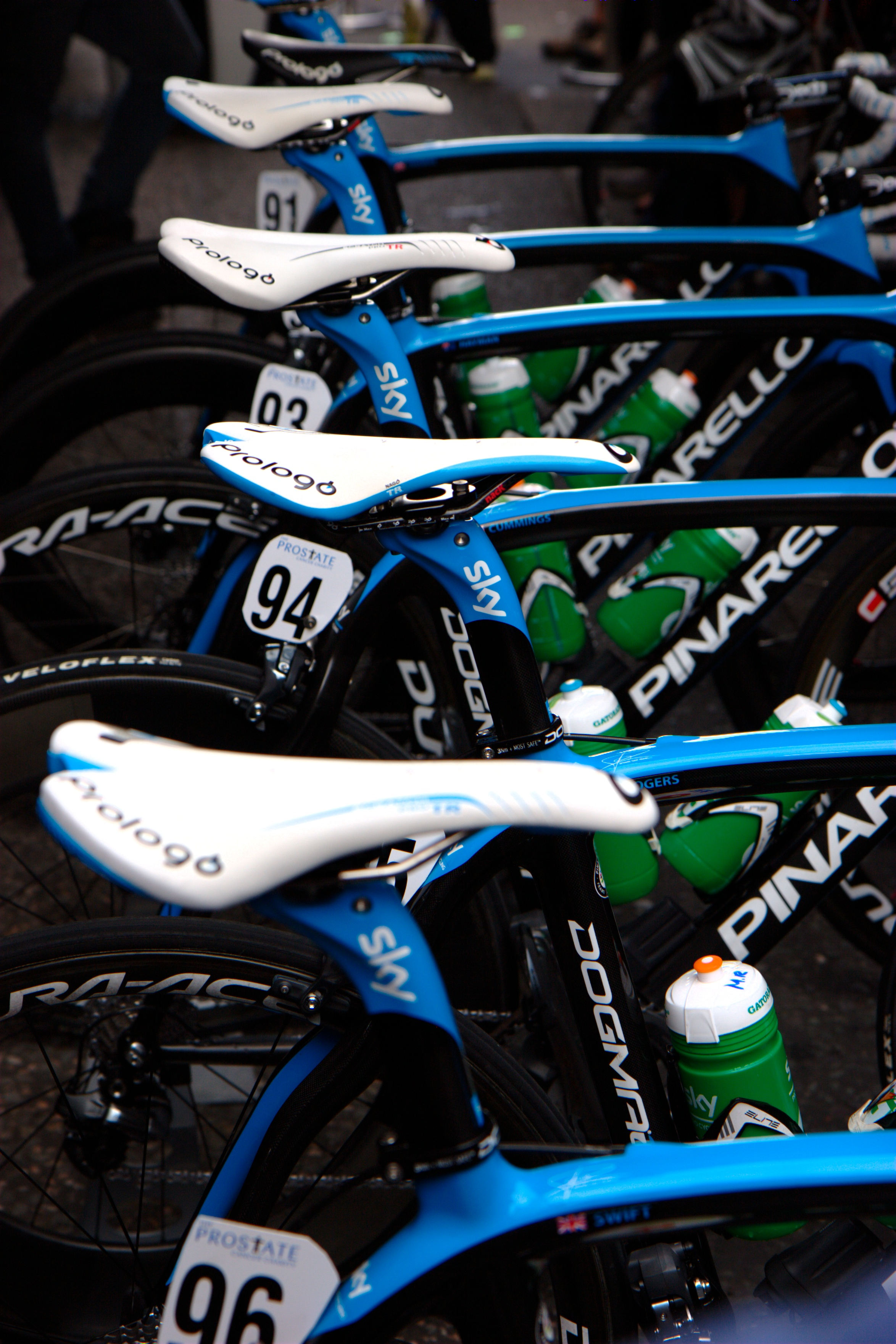 From the top, the bikes belong to: 91 Geraint Thomas 92 Alex Dowsett 93 Mathew Hayman 94 Stephen Cummings 95 Michael Rogers 96 Ben Swift